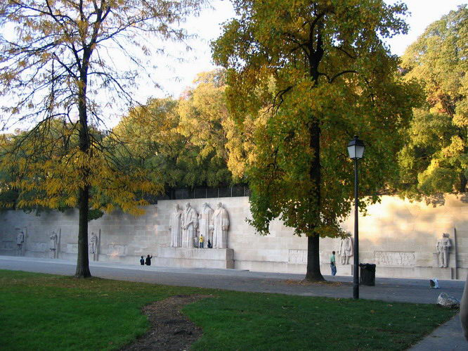 monument international de la reformation in Geneva